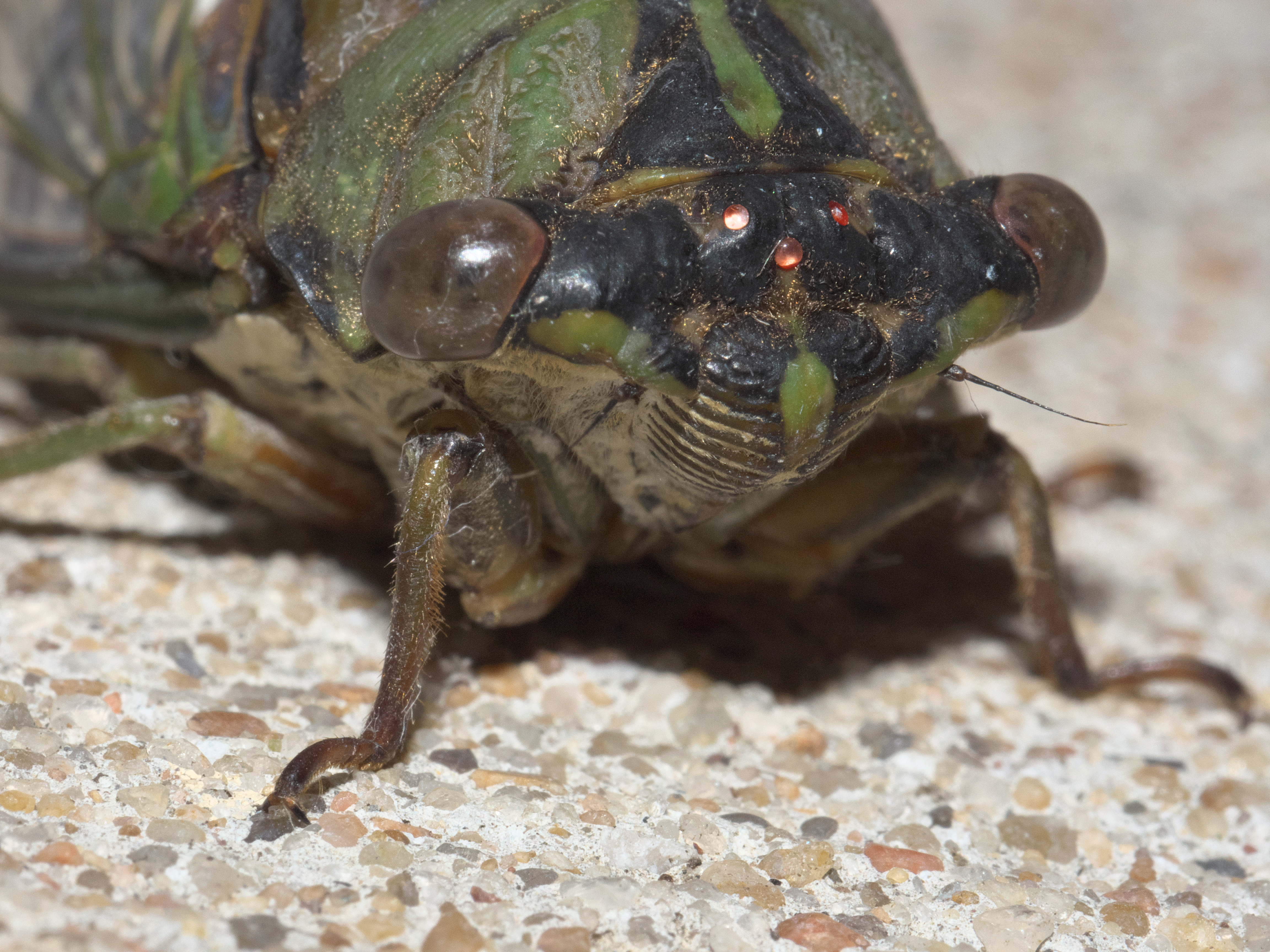 Neotibicen pruinosus, Scissor(s) Grinder, ID Confidence: 88